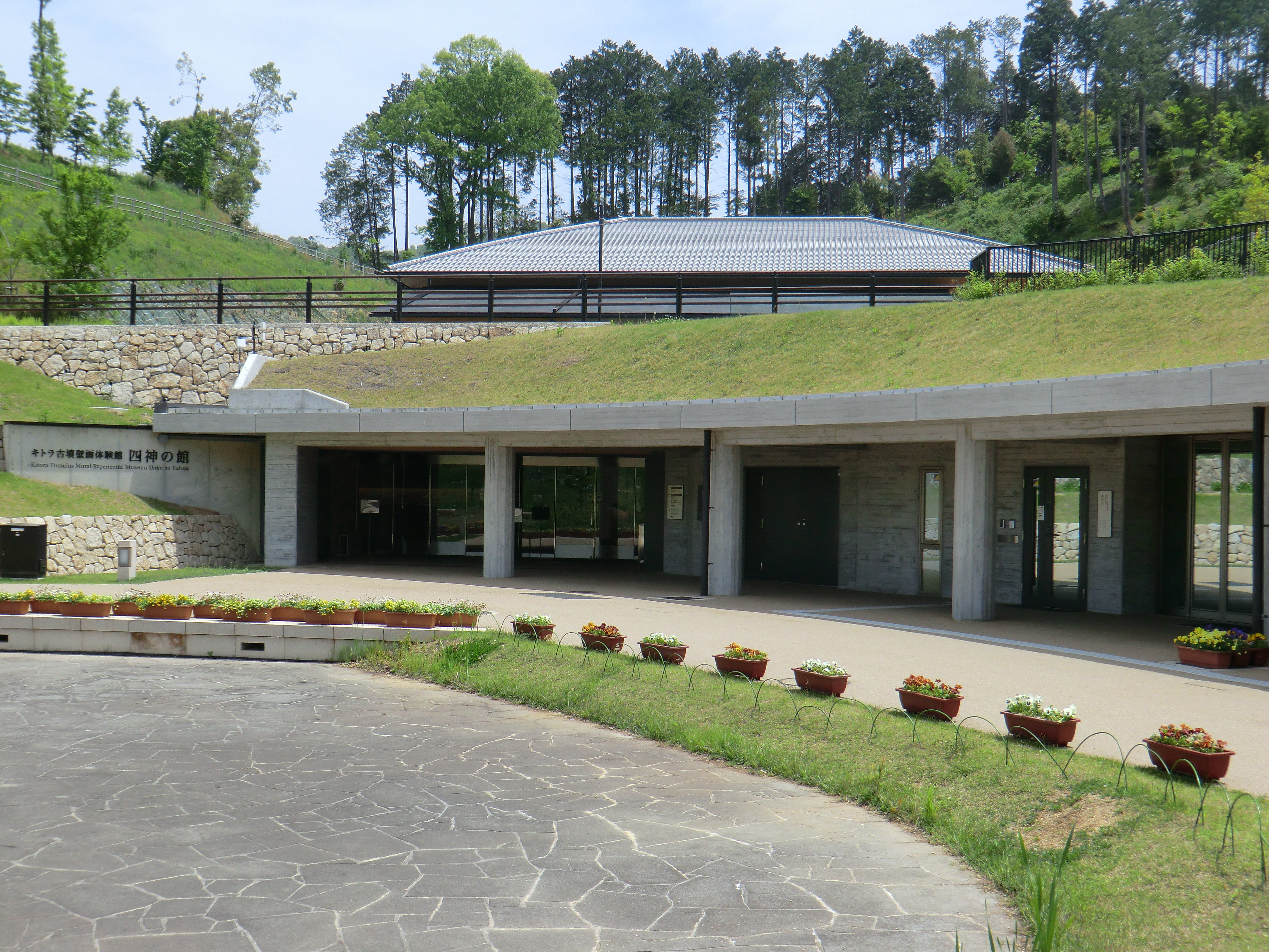 Kitora Tumulus Mural Experiential Museum Shijin no Yakata